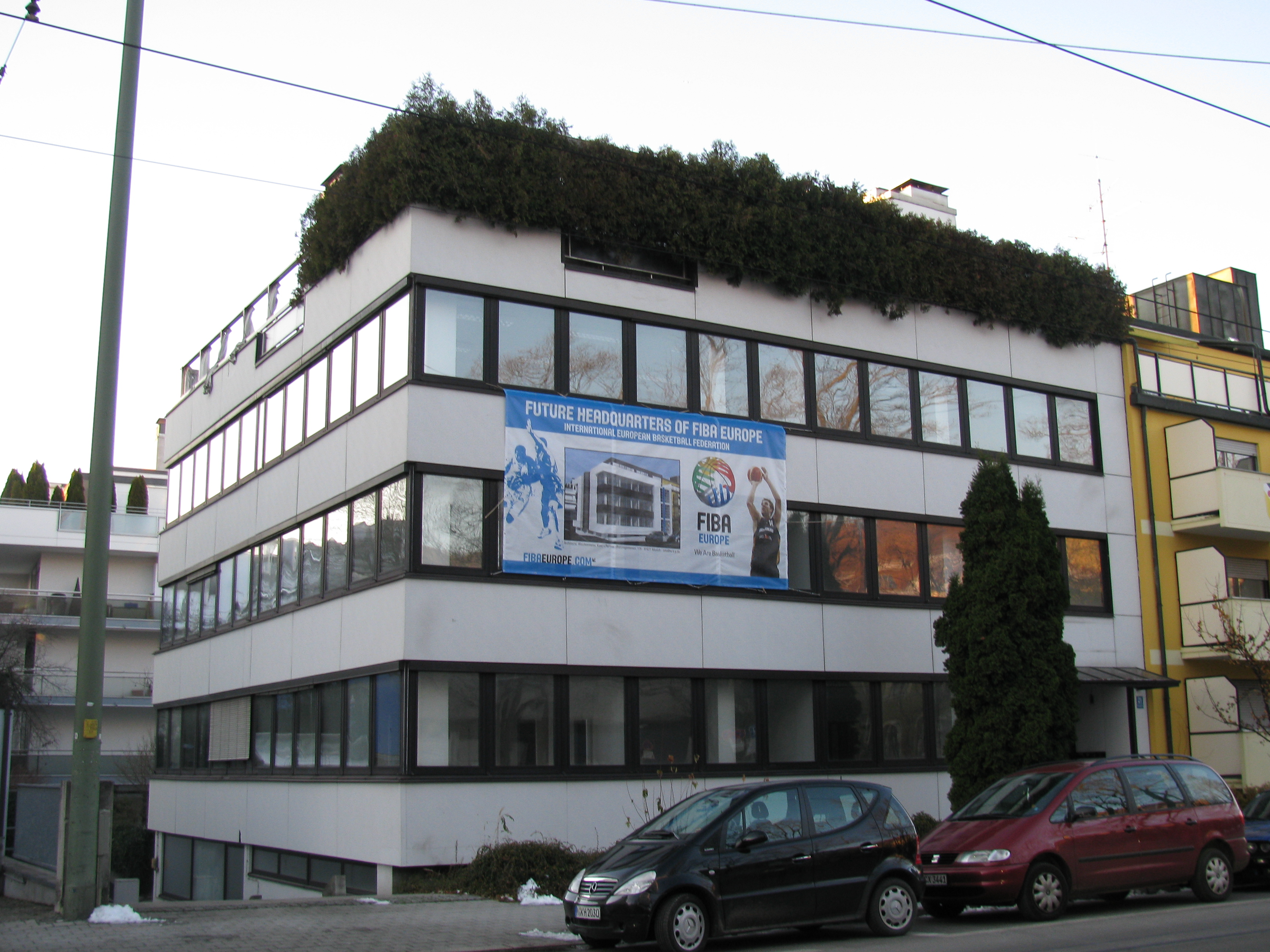 Future FIBA Europe HQ